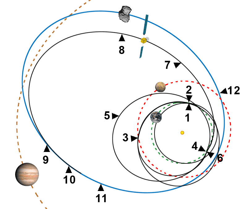 Rosetta spacecraft trajectory March 2004 : Start OK March 2005 : 1st Swing-By Earth OK February 2007 : Mars Swing-By OK November 2007 : 2nd Earth Swing-By OK September 2008 : Passing asteroid Steins OK November 2009 : 3rd Earth Swing-By OK July 2010 : Rendez-vous asteroid 21 Lutece OK July 2011 : going in Hibernation Mode OK January 2014 : Wake Up OK August 2014 : Swing-in Churyumov–Gerasimenko OK November 2014 : Landing of Philae at Churyumov–Gerasimenko August 2015 : End of mission